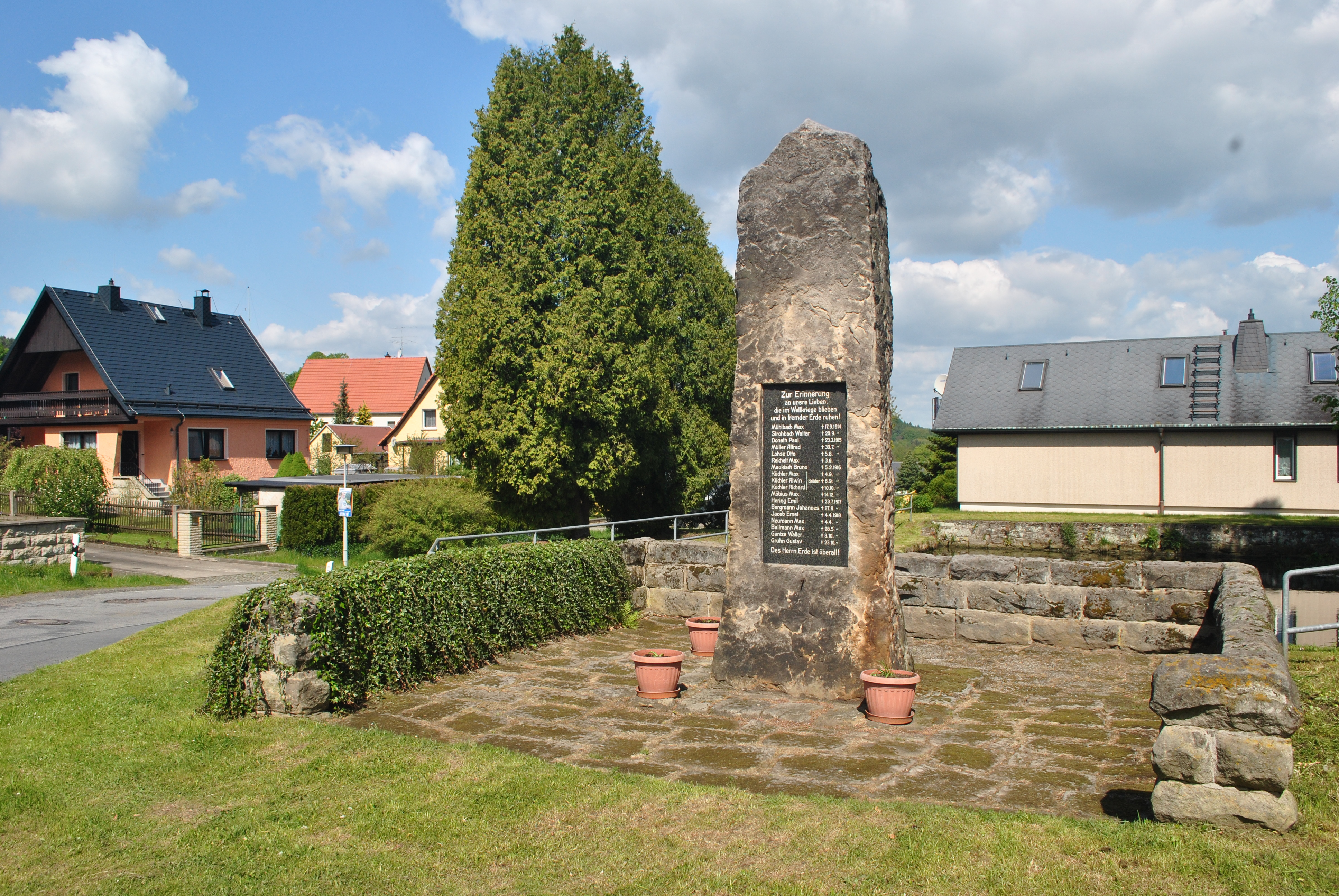 World War I memorial in Pfaffendorf/Saxony (Germany)